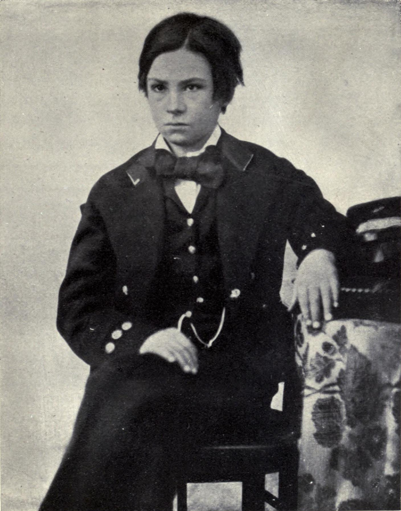 Edward Hobart Seymour in 1855.